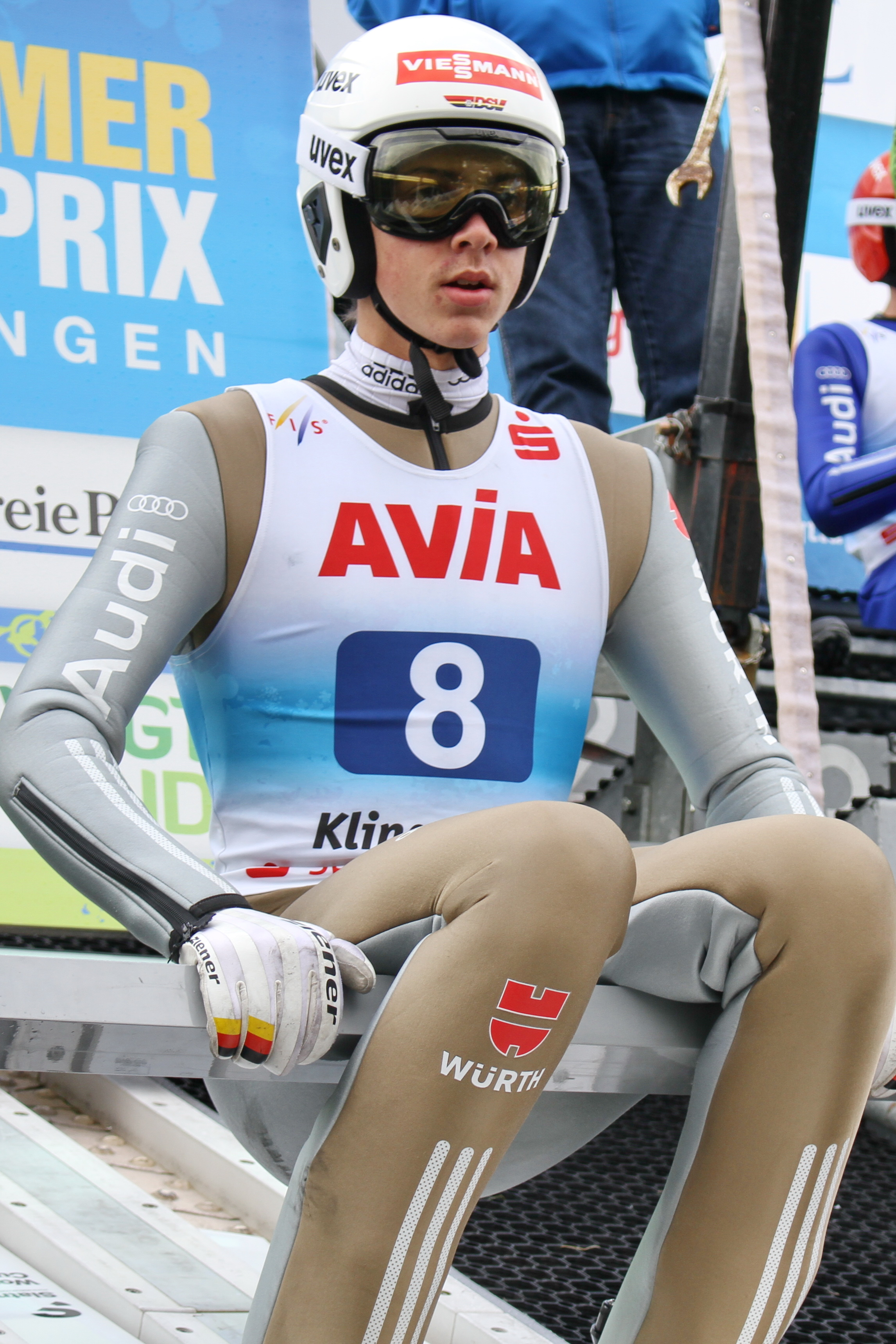 FIS Ski Jumping Summer Grand Prix Klingenthal 2017 on 2017-10-03 Constantin Schmid